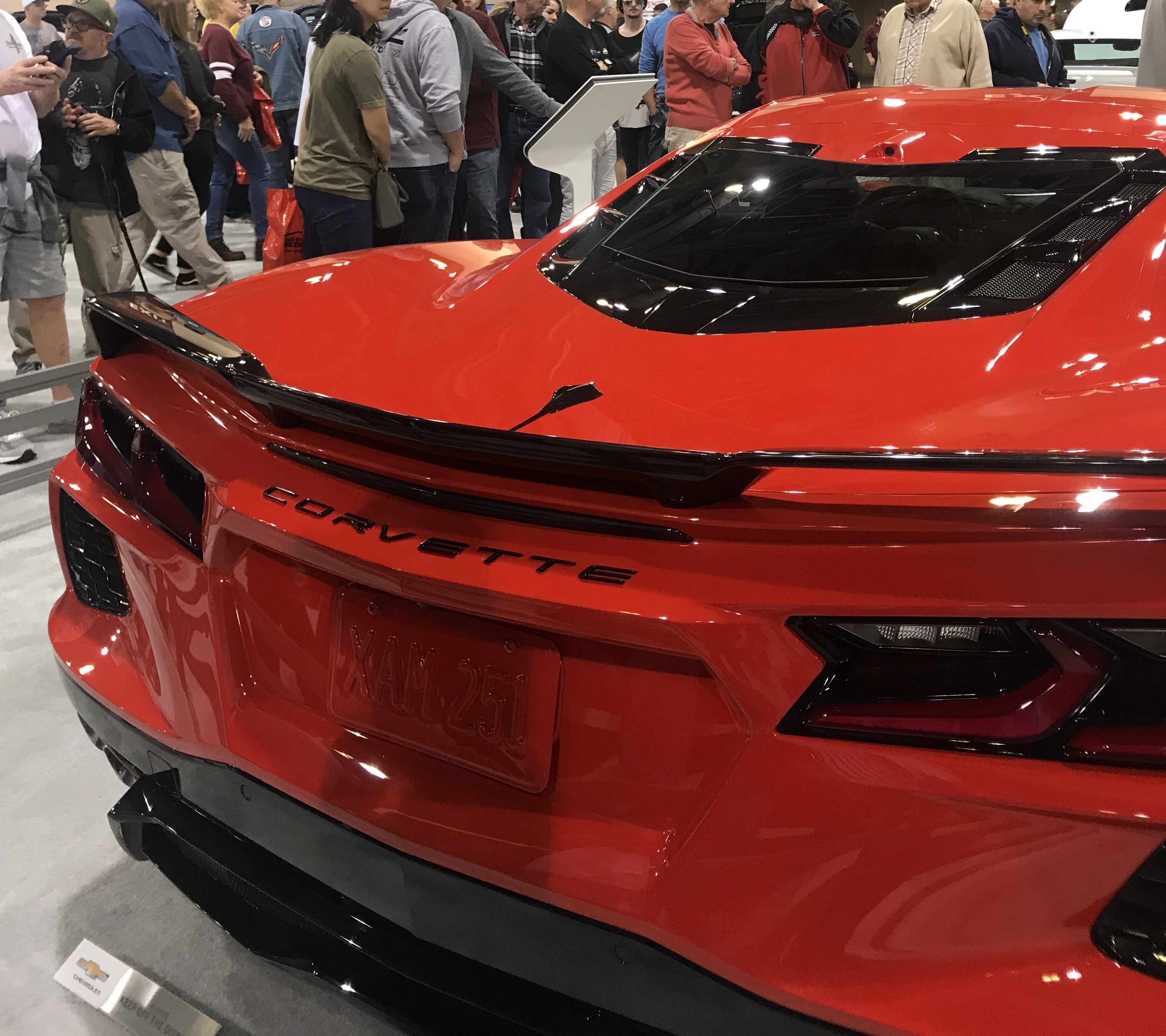 A 2020 Chevy Corvette C8 at the Arizona International Auto Show in Phoenix, Arizona.